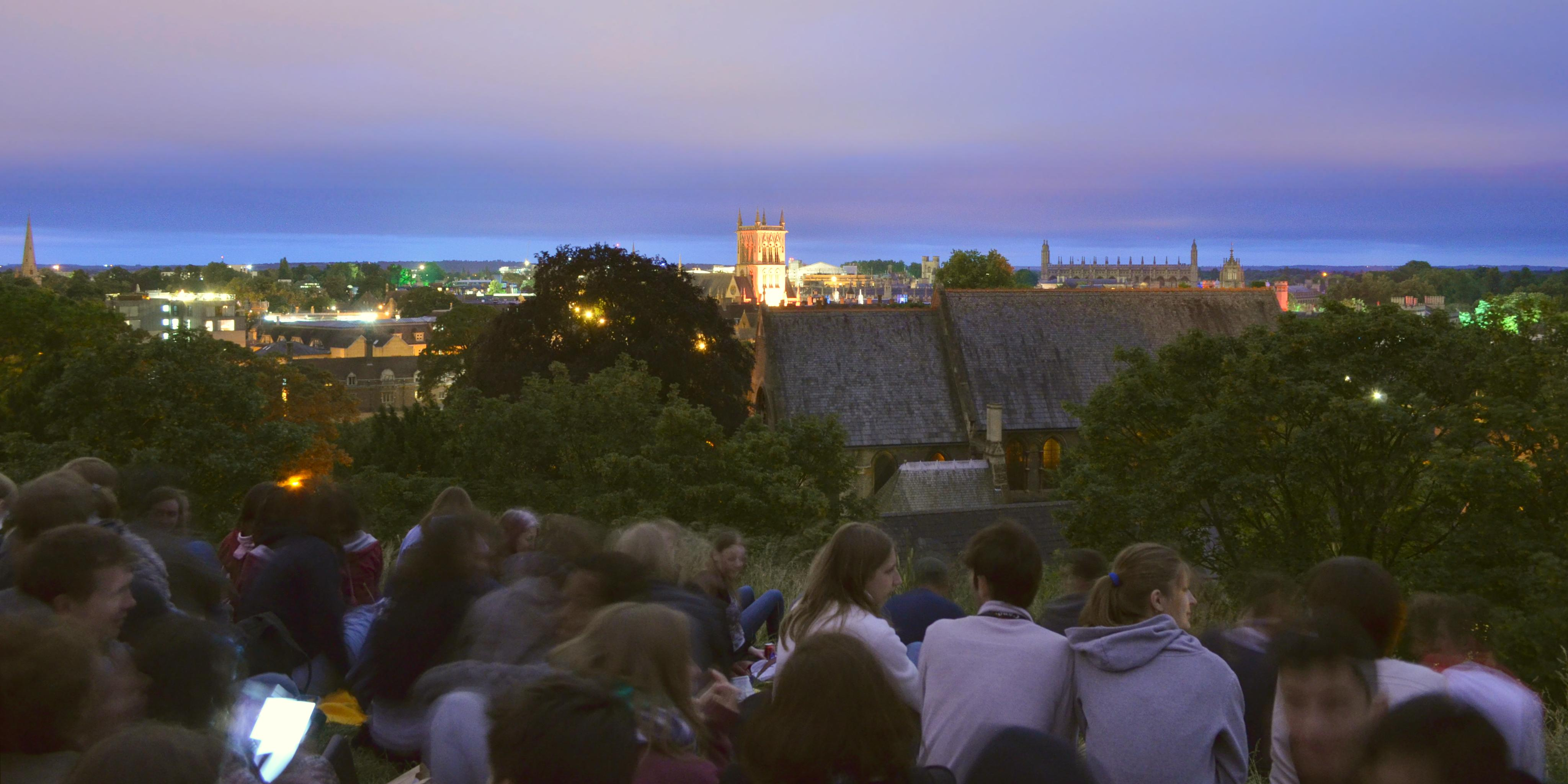 Spectators atop the Cambridge castle mound await the St John's College May Ball 2014 fireworks.